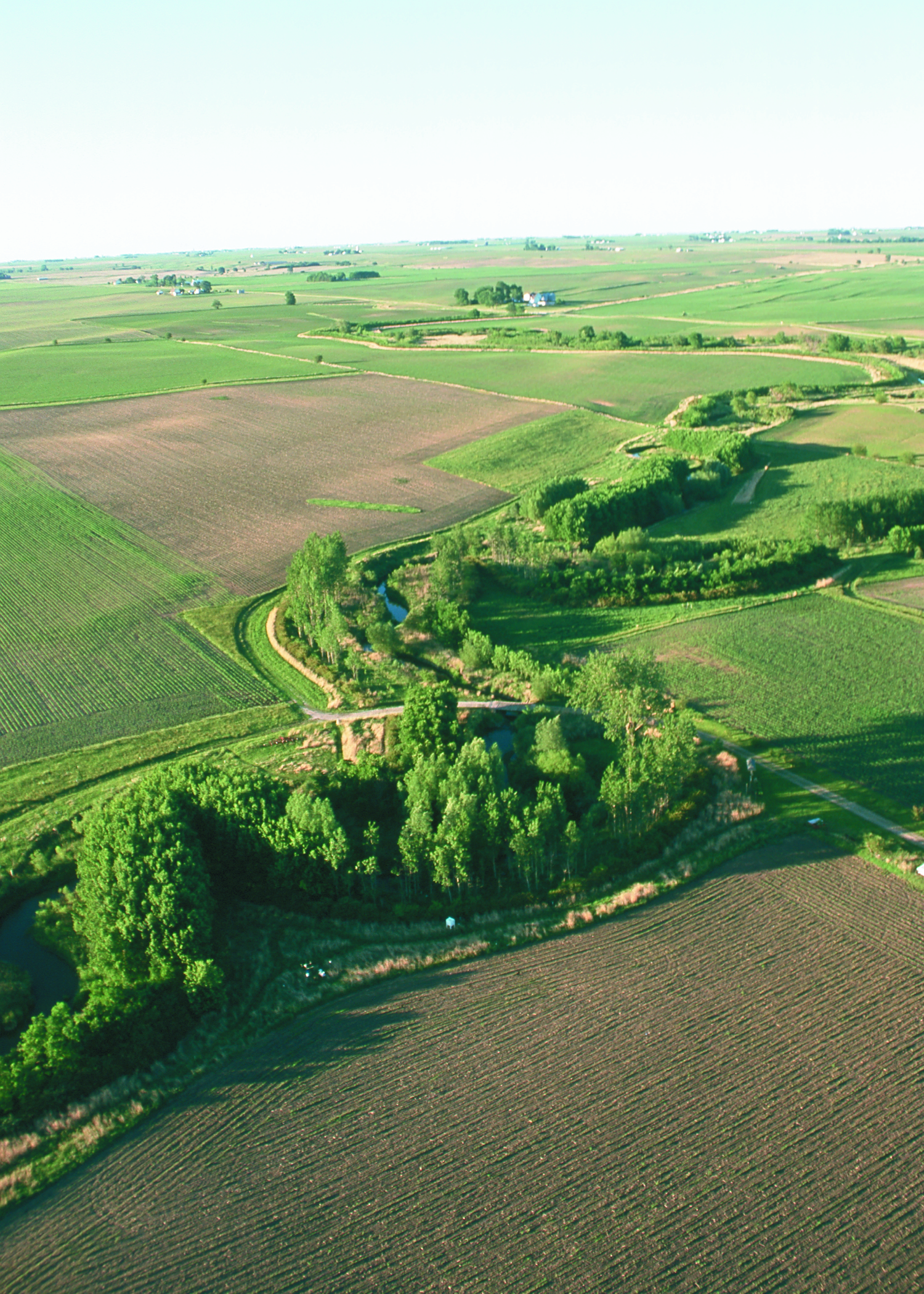 Multiple rows of trees and shrubs, as well as a native grass strip, combine in a riparian buffer to protect Bear Creek in Story County, Iowa. The buffer is a nationally designated demonstration area for riparian buffers.